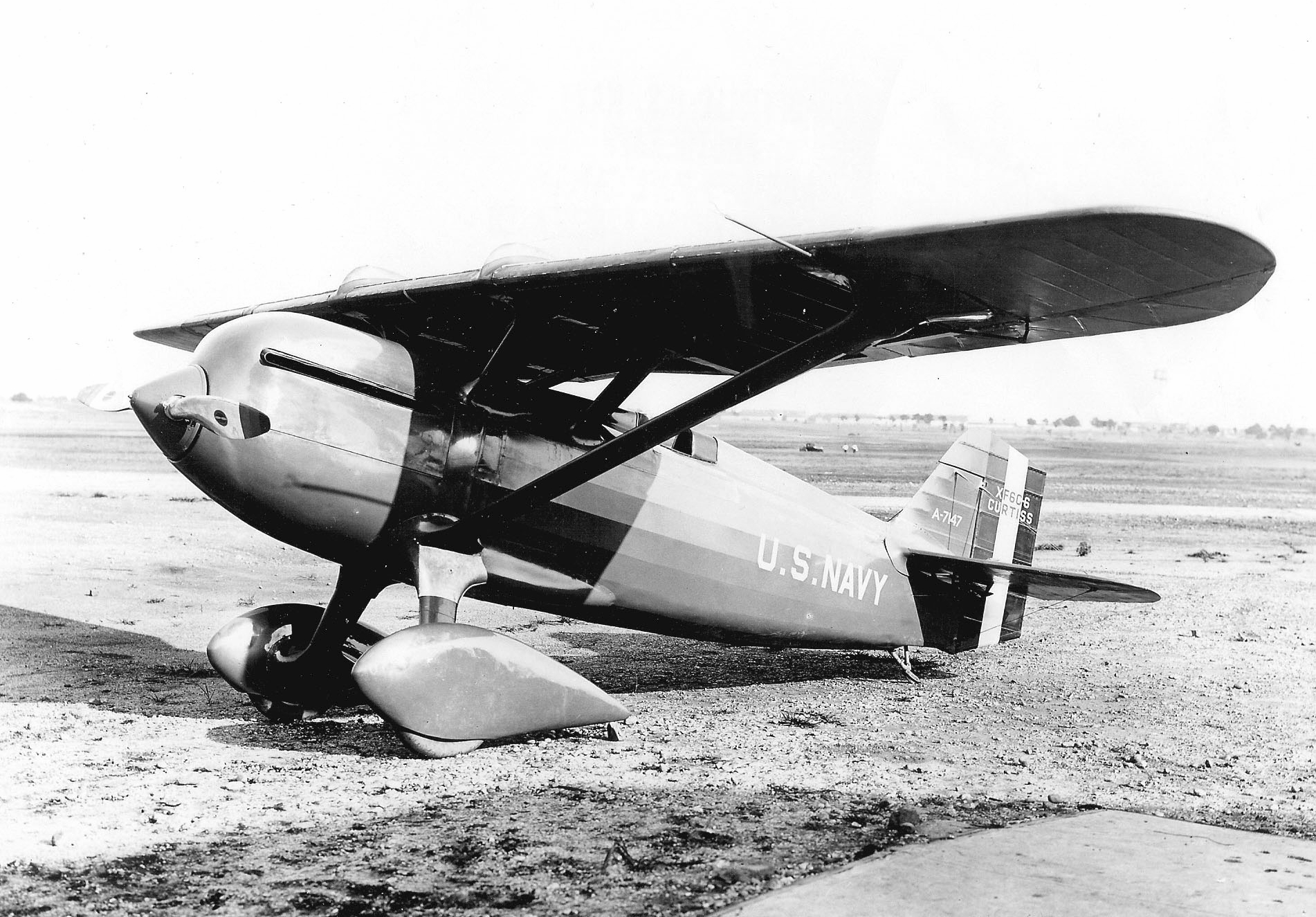 The Navy Curtiss XF6C-6 Hawk Racer (BuNo A-7147) parked at an unidentified airfield on 18 August 1930. This is the aircraft in which Capt Arthur Page, USMC, was killed flying in the Thompson Trophy Race on 1 September 1930.